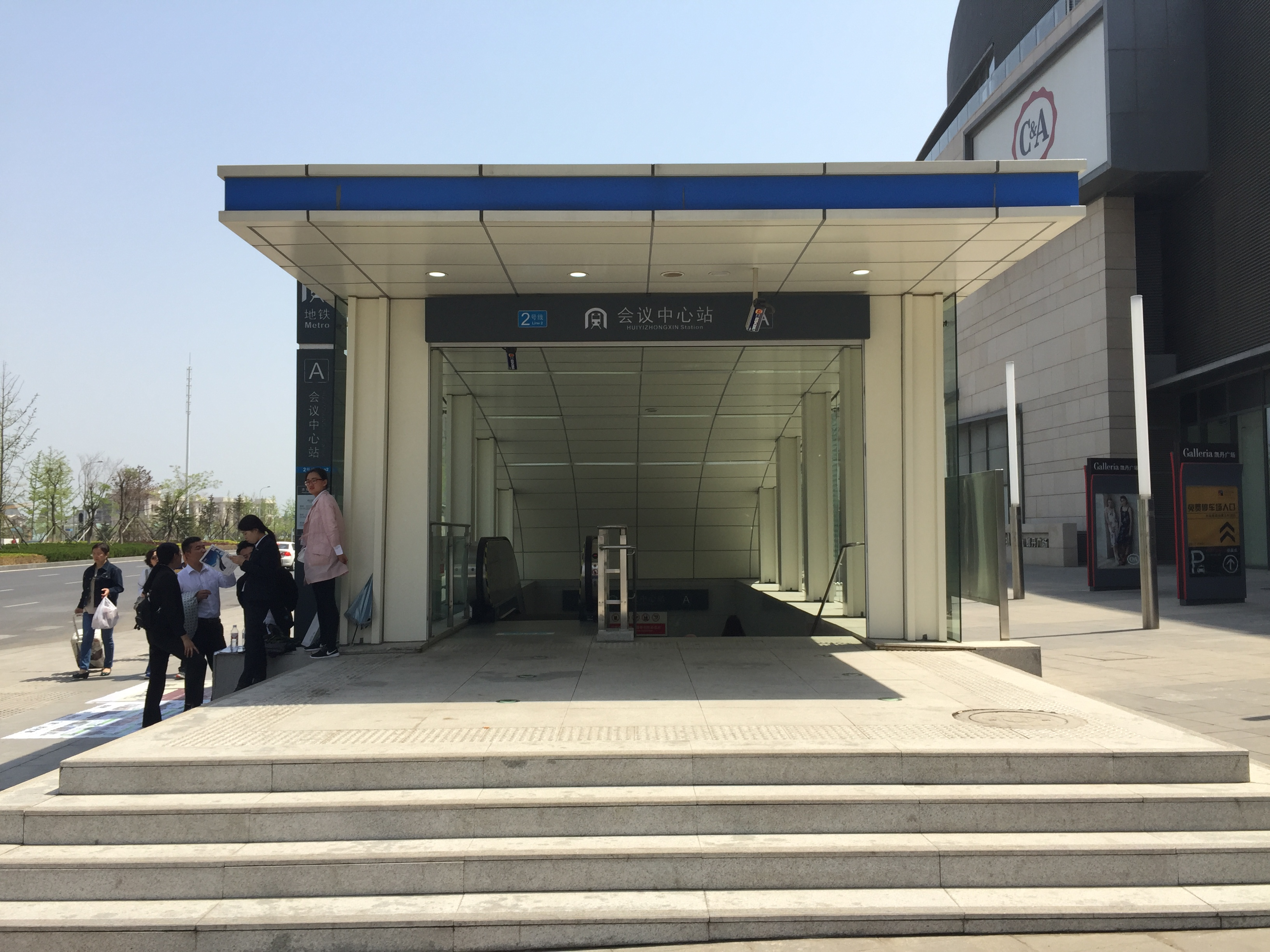 Huiyizhongxin Station - Entrance A